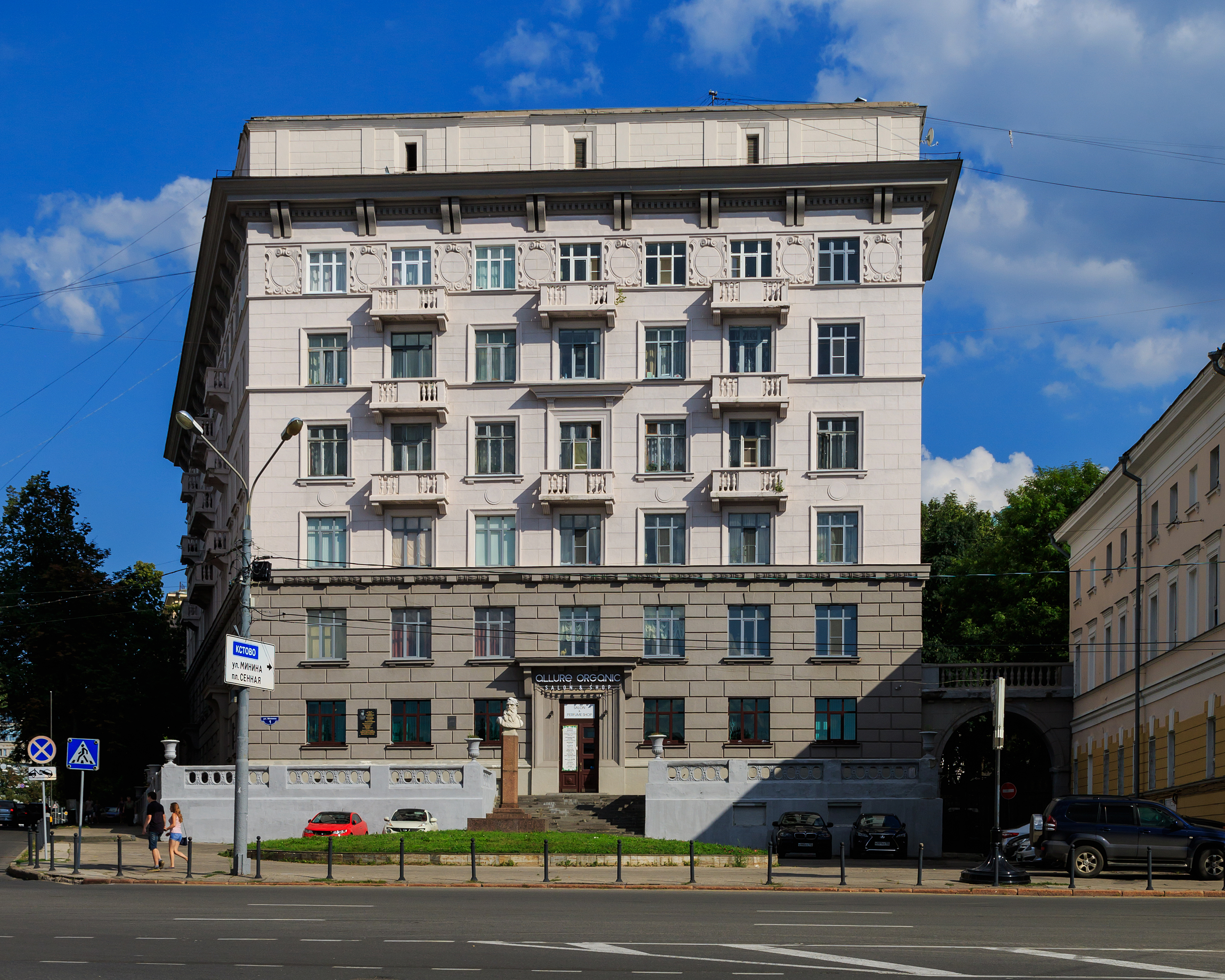 «First House». Building at 1, Minina Street in Nizhny Novgorod, Russia.